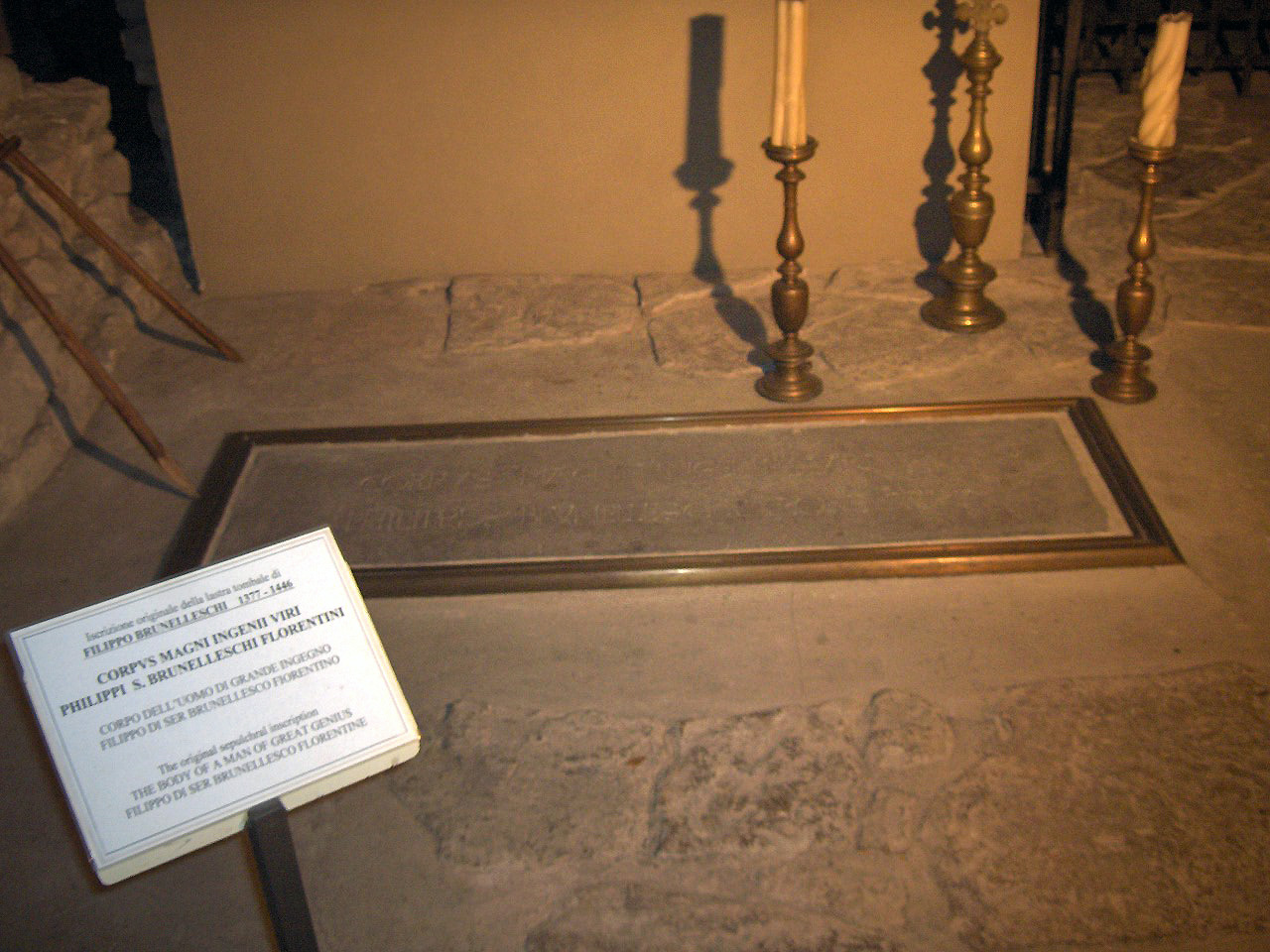 Tomb of Filippo Brunelleschi underneath the Duomo Santa Maria del Fiore; Florence, Italy. Own photo - photo made on 12 October 2005.